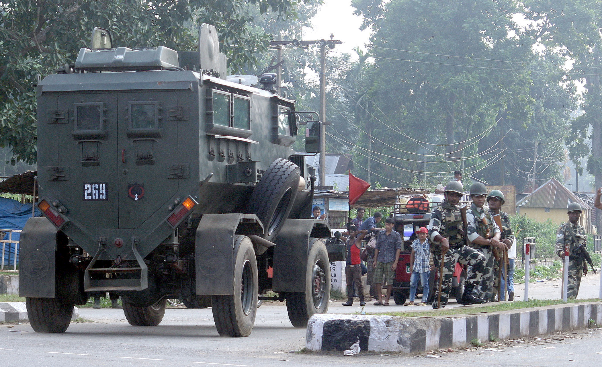 An Indian paramilitary soldier stand An Indian paramilitary guard in National Highways-51 Tura Road and N.H.-37.During Garo National Council indefinite bandh in Goalpara and Kamrup District. On Monday. (Pictures by Vishma Thapa)